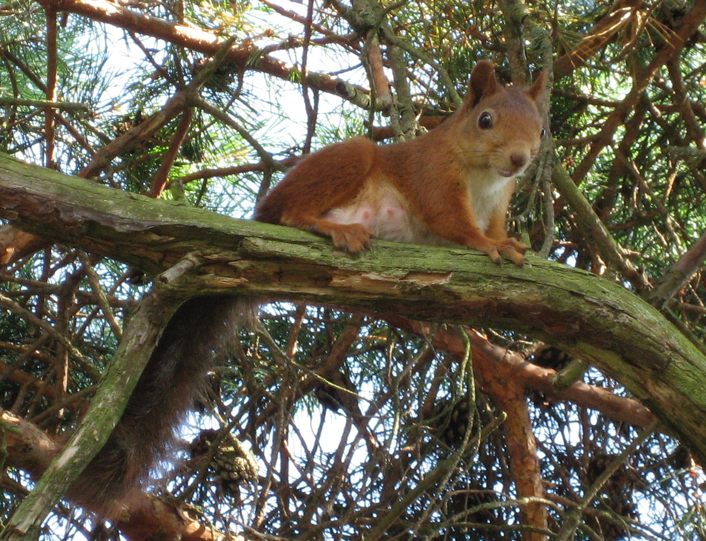 Sciurus vulgaris - European Red Squirrel Picture taken in Årøysund (Nøtterøy) near Tønsberg, Norway.